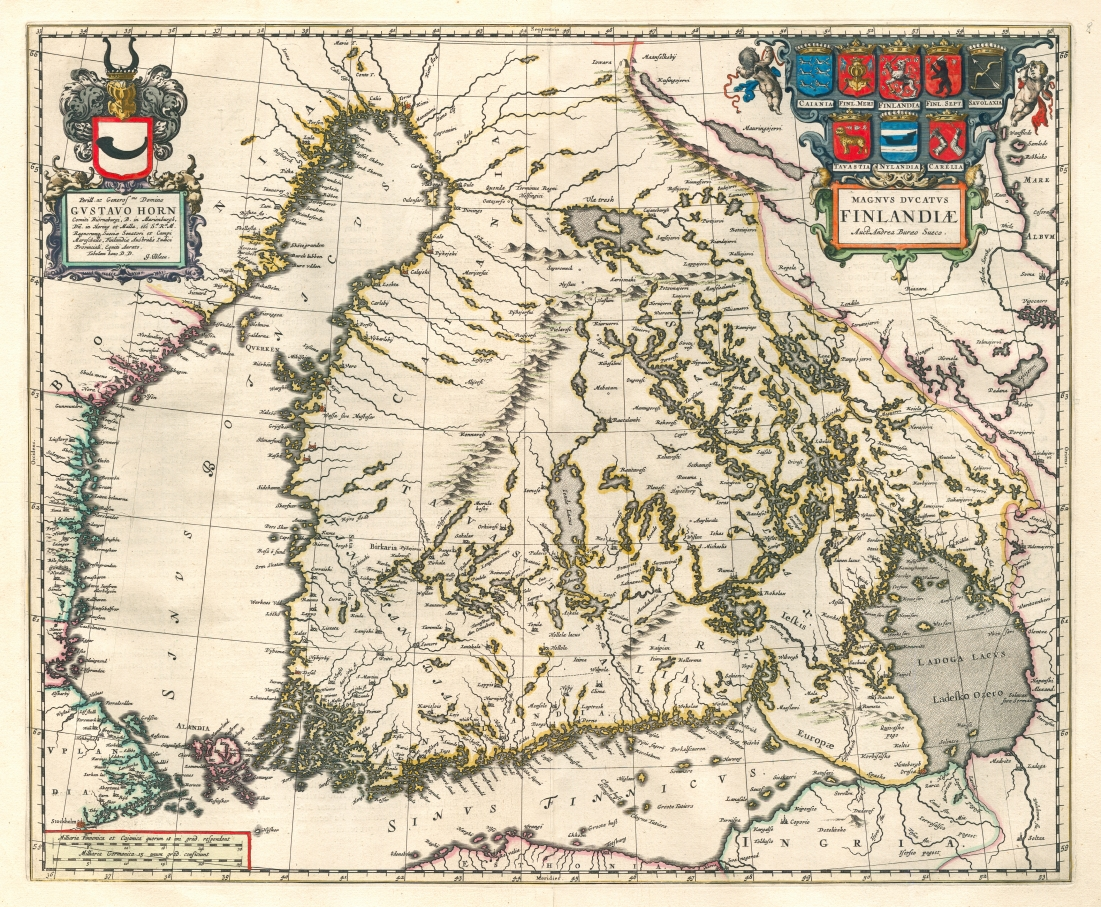 The Grand duchy of Finland